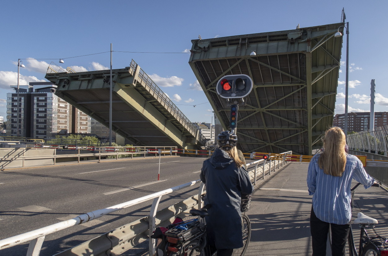 FOTOGRAFILiljeholmsbron under öpping mot väst. -FOTOGRAF: Ek, Mattias.BILDNUMMER:Stadsmuseet i Stockholm